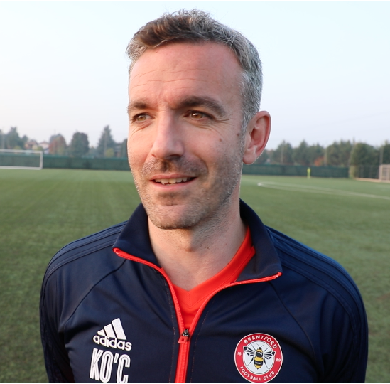 This is a still image of former professional footballer Kevin O'Connor giving an interview in Italy while working for Brentford Football Club. The picture is to be used as an updated photograph for his bio page.